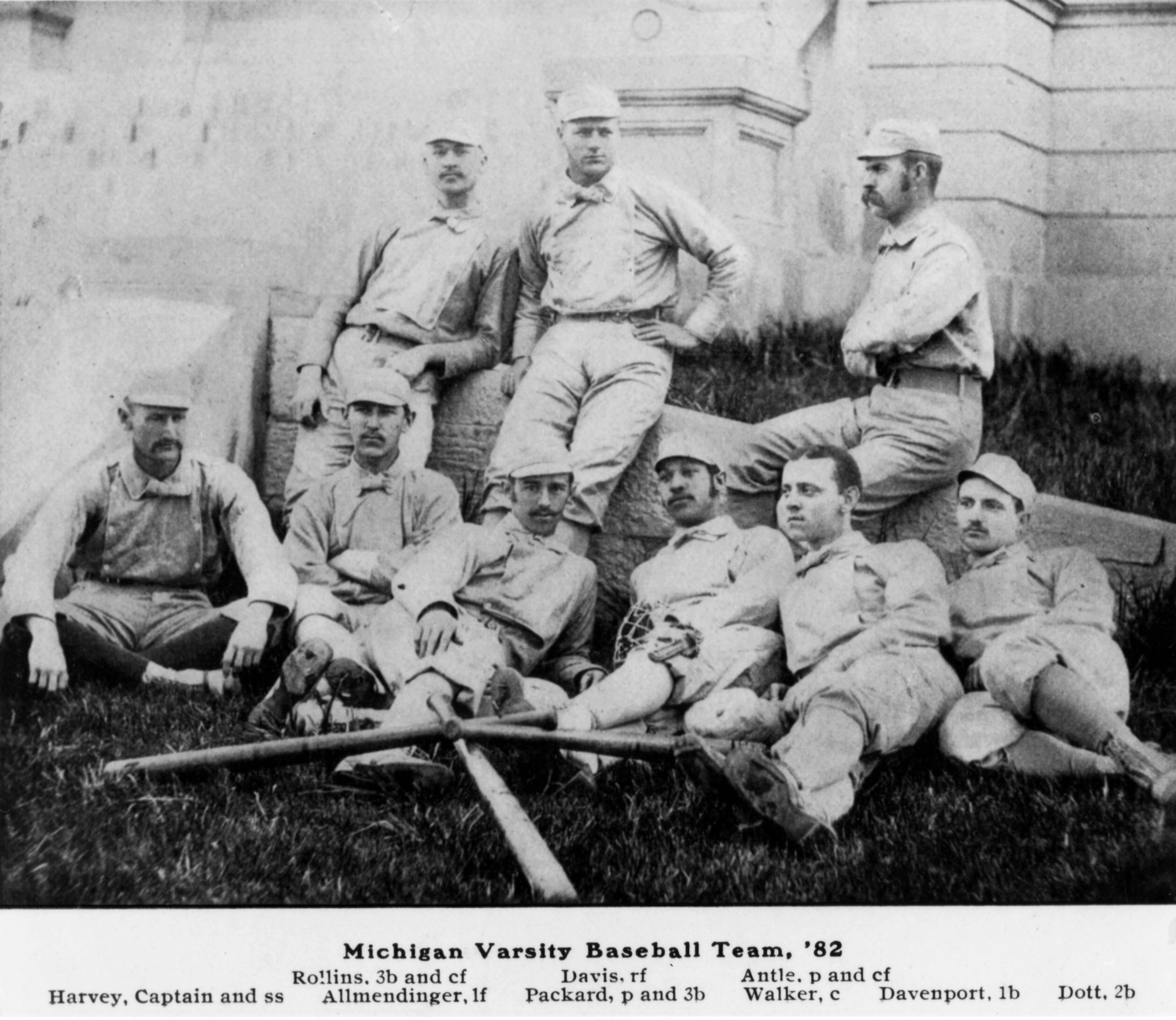 1882 University of Michigan baseball team.Top row: John Henry Rollins, Walter Davis, Thomas P. AntleFront row: capt. William S. Harvey, Charles G. Allmendinger, Arthur P. Packard, Moses Fleetwood Walker, Frank W. Davenport, Richard Dott